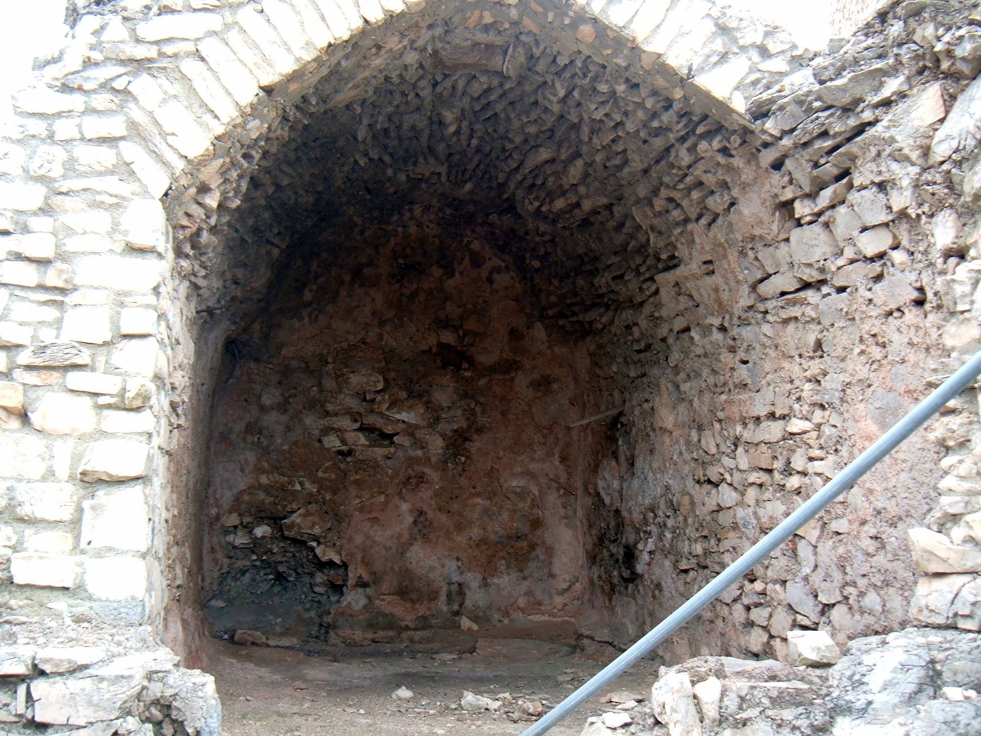 Rocca San Silvestro, a medieval rocca located in Campiglia Marittima, Tuscany, Italy. Here was collected the rainwater (qui veniva raccolta l'acqua piovana)